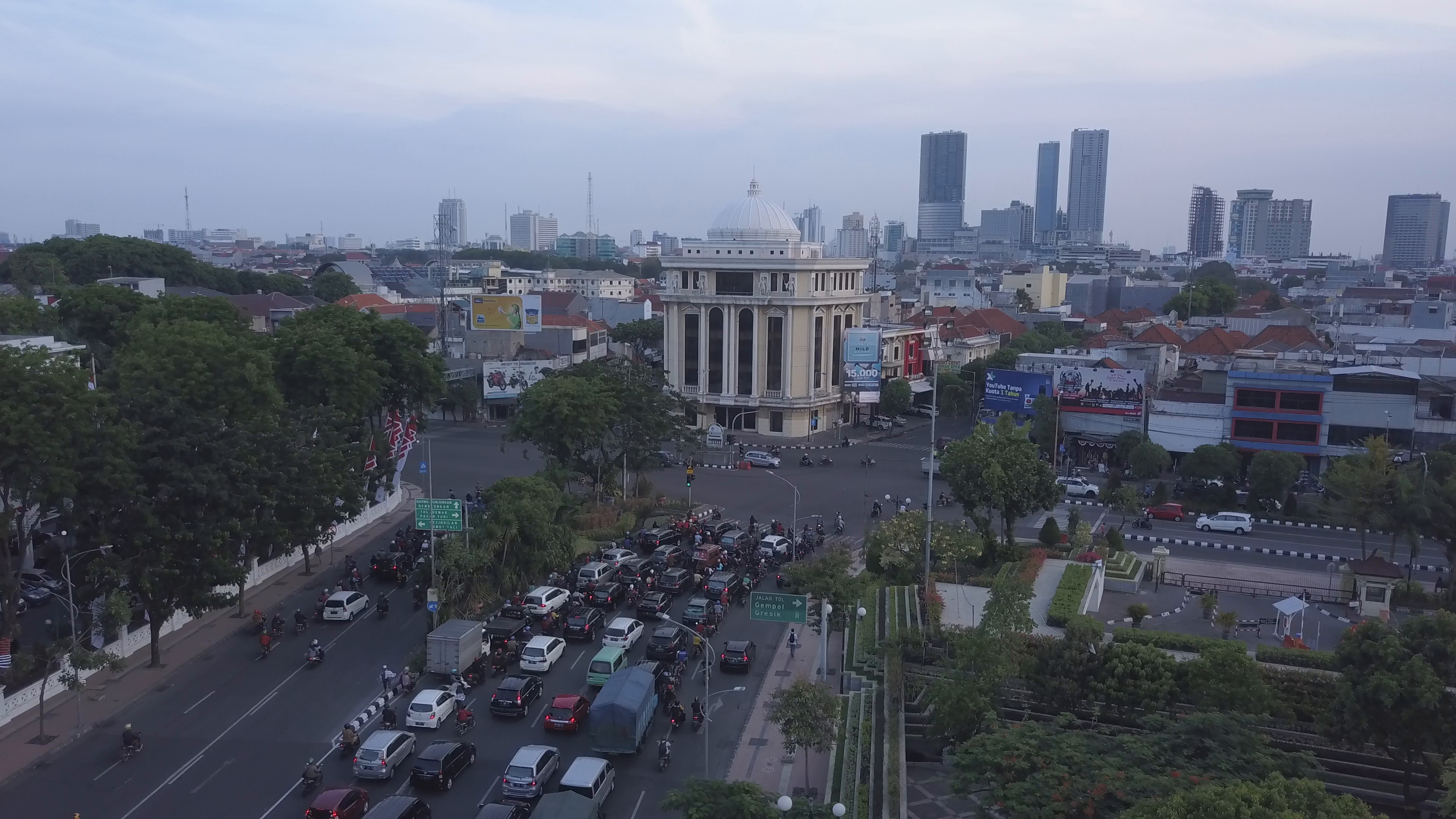 Aerial of Central Surabaya, early 2018